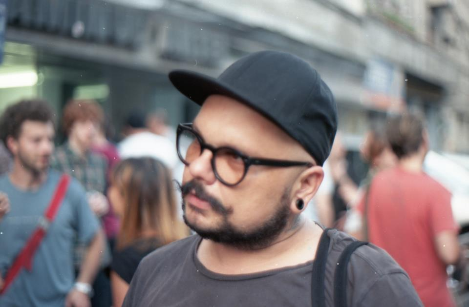 Razvan Ion